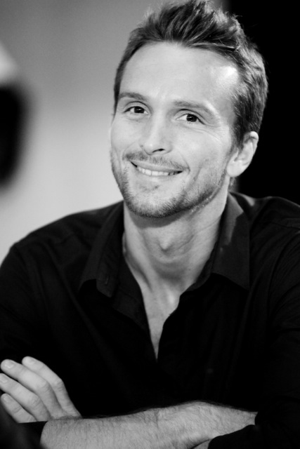 Dino Lanaro in 2012